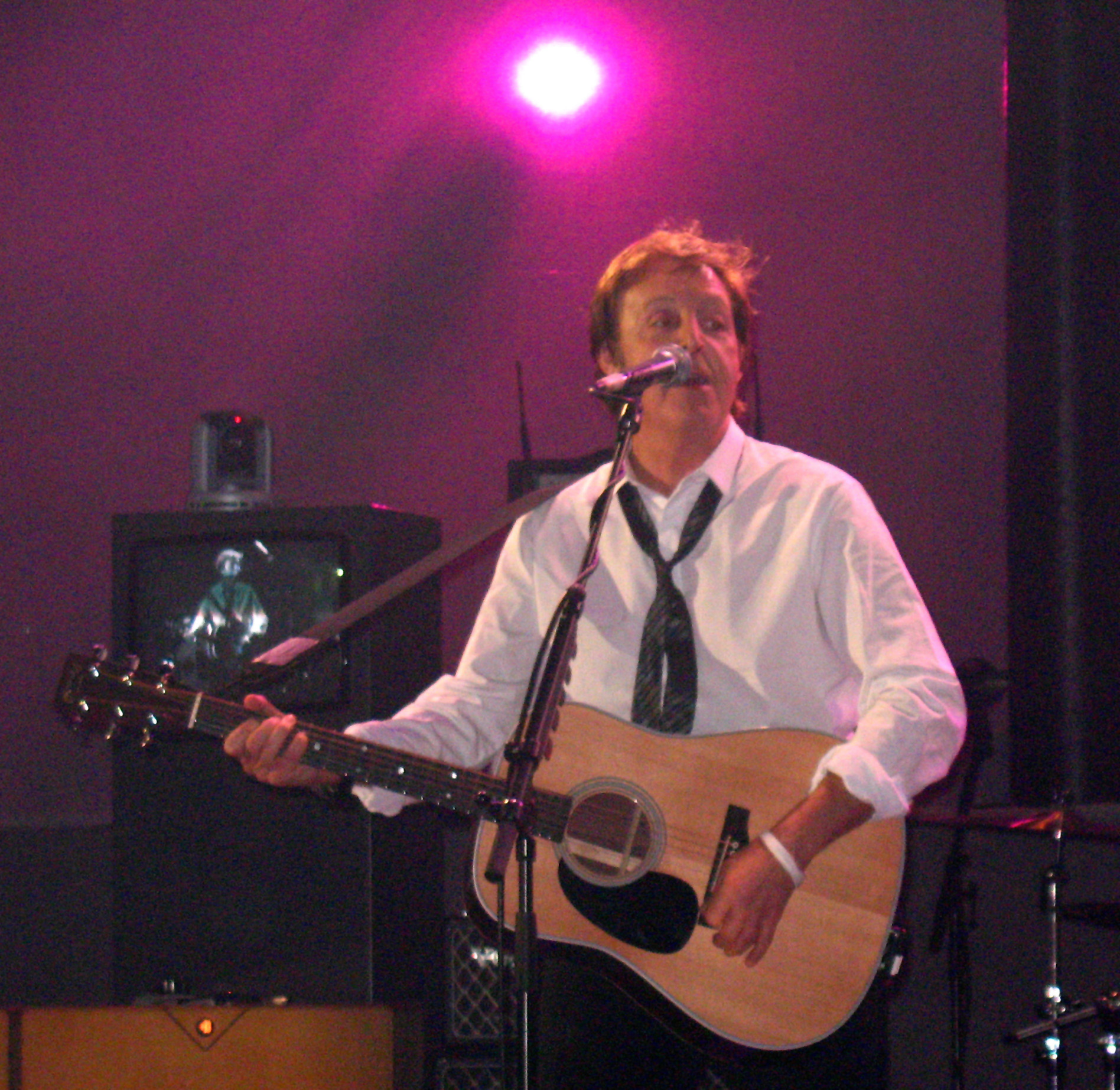 Paul McCartney performs the Beatles' song "Blackbird" during his BBC Electric Proms performance at the Roundhouse in Camden, London, England. For more pictures, songs and videos from this gig, Taken on October 25, 2007.